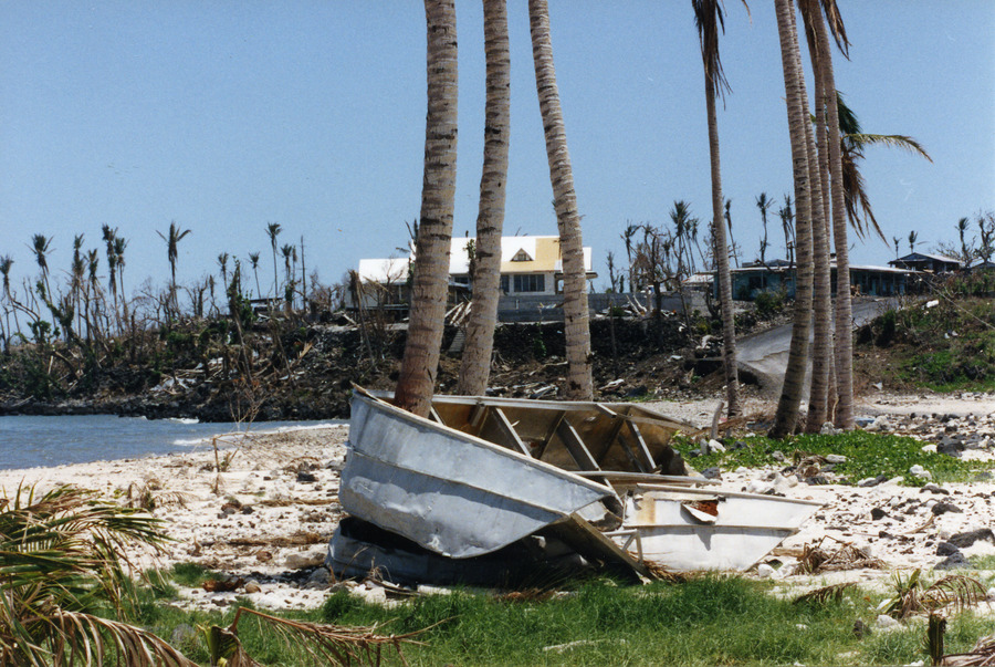 On December 4 1991, Cyclone Val struck Western Samoa and American Samoa. The cyclone lasted until December 13. The overall damages caused by Cyclone Val have been variously assessed. One estimate put the damages at $50 million in American Samoa and $200 million in Western Samoa due to damage to electrical, water, and telephone connections and destruction of various government buildings, schools, and houses. The cyclone destroyed many houses on the Samoan Islands of Upolu and Savai’i. Buildings from the pre WW1 colonial era were hard hit. Australia, New Zealand and the USA led the international assistance for both countries. Shown here is a picture transferred to Archives New Zealand by the Ministry of Foreign Affairs and Trade, taken in 1992. Archives New Zealand Reference: R23578793 AAEG 7398 W4835 7 / [LIV]